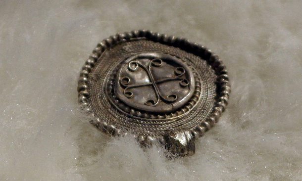 Silver pendant(1076-1086) from the 11th-century Eijsden hoard, Eijsden, Limburg, the Netherlands (private collection).